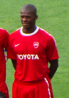 Diambobo Baldé (Valenciennes FC)